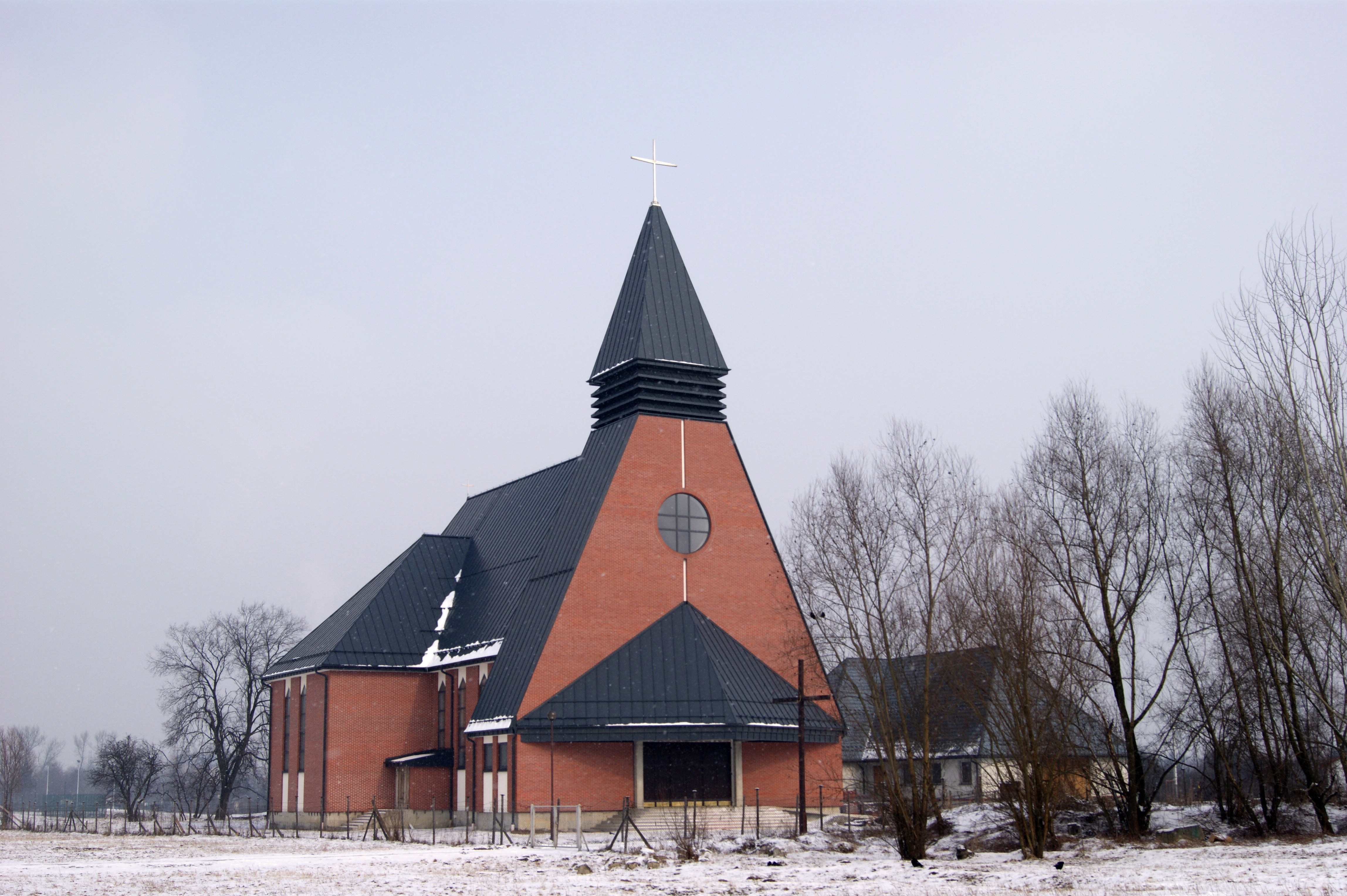 Our Lady of Fátima Church, Lipska street, Krakow, Poland